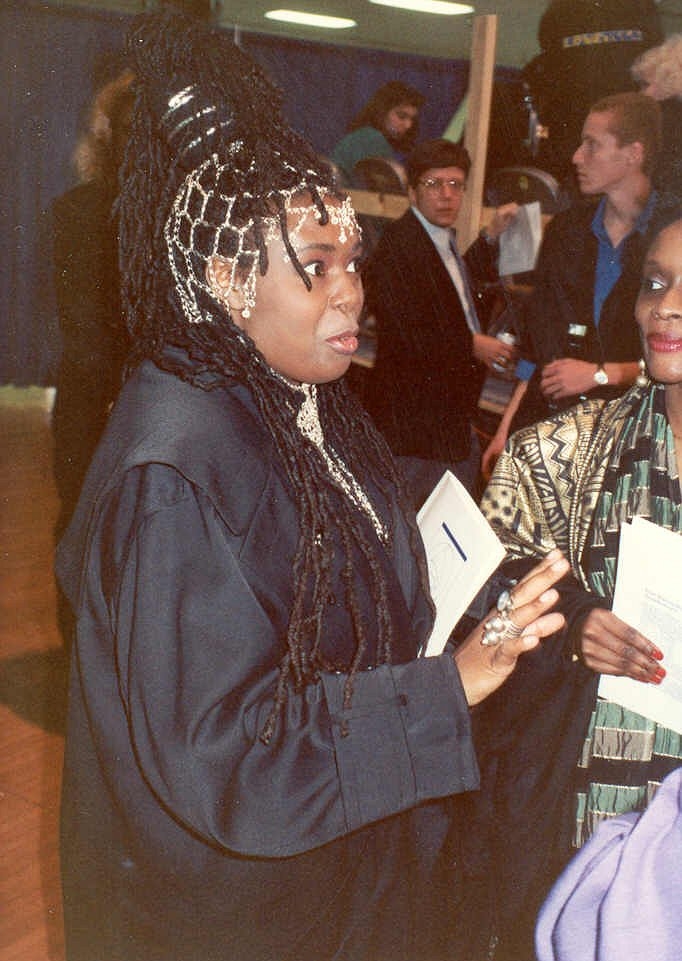 Caron Wheeler of Soul II Soul, backstage during the Grammy Awards telecast 2/21/90 - Permission granted to copy, publish, broadcast or post but please credit "photo by Alan Light" if you can